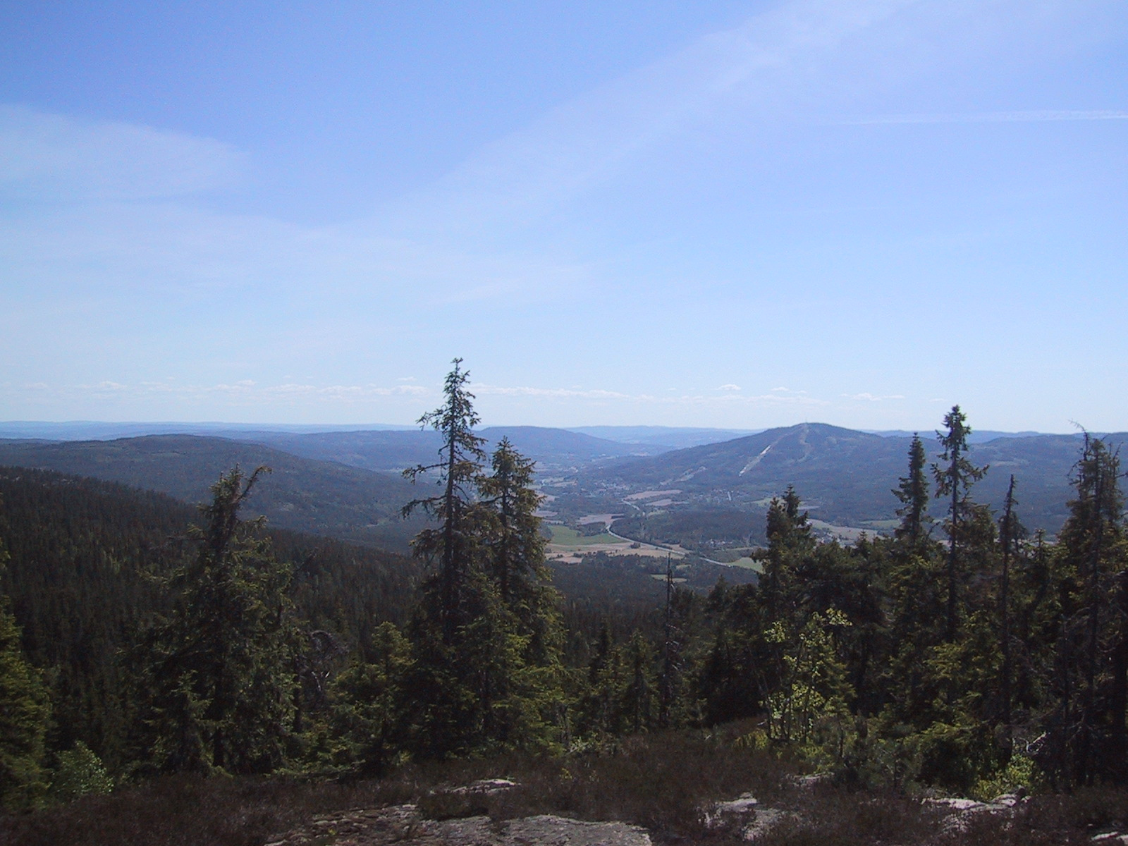 View from Runkollen over Hakadal in Norway. Varingskollen to the right.